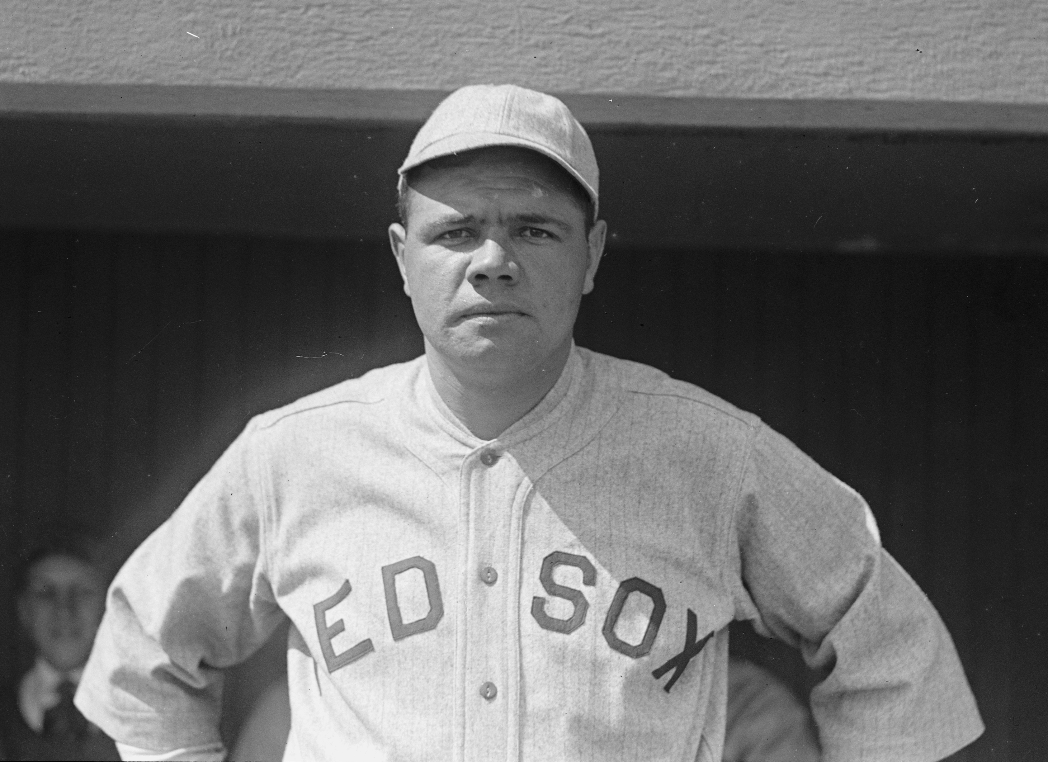 American baseball player Babe Ruth, publicity photo, 1919, Boston Red Sox